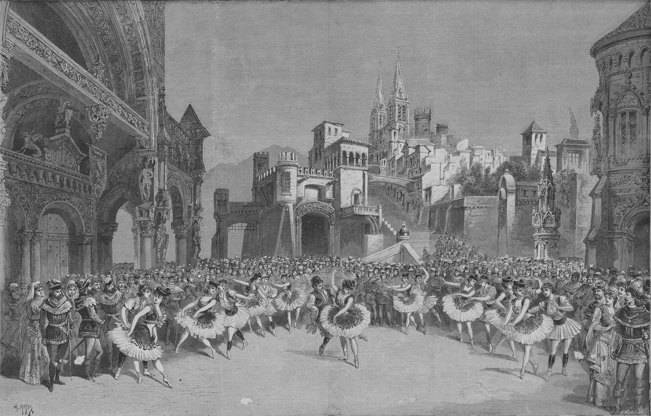 Massenet - Le Cid - 1885 - act 2, scene 4 - Le grand ballet espagnol dansé sur la place de Burgos